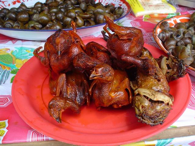 This picture by Albeiro Rodas can be used for any purpose, provided that his name is credited.